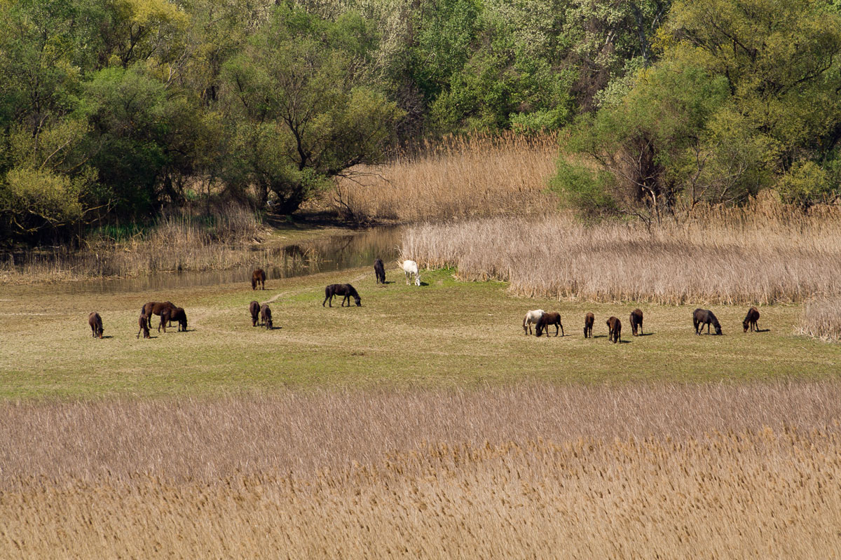 Wild horses in the area north to the dam of Axios river